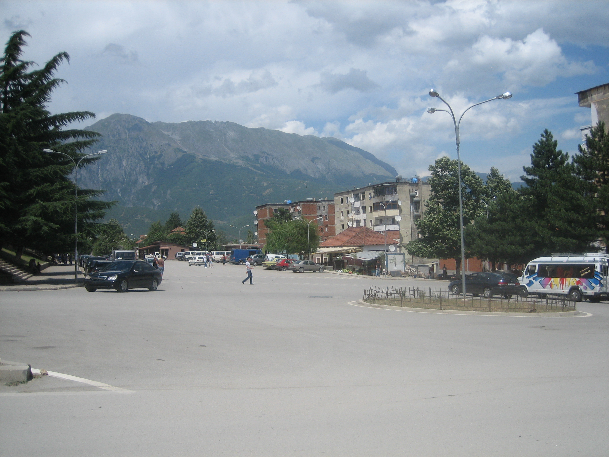 Sheshi Azem Hajdari and Rruga Agim Ramadani in Bajram Curri, Tropojë District, Kukës County, Albania